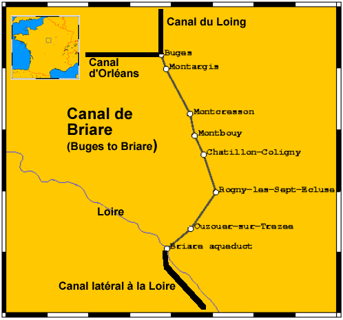 Map of Canal de Briare